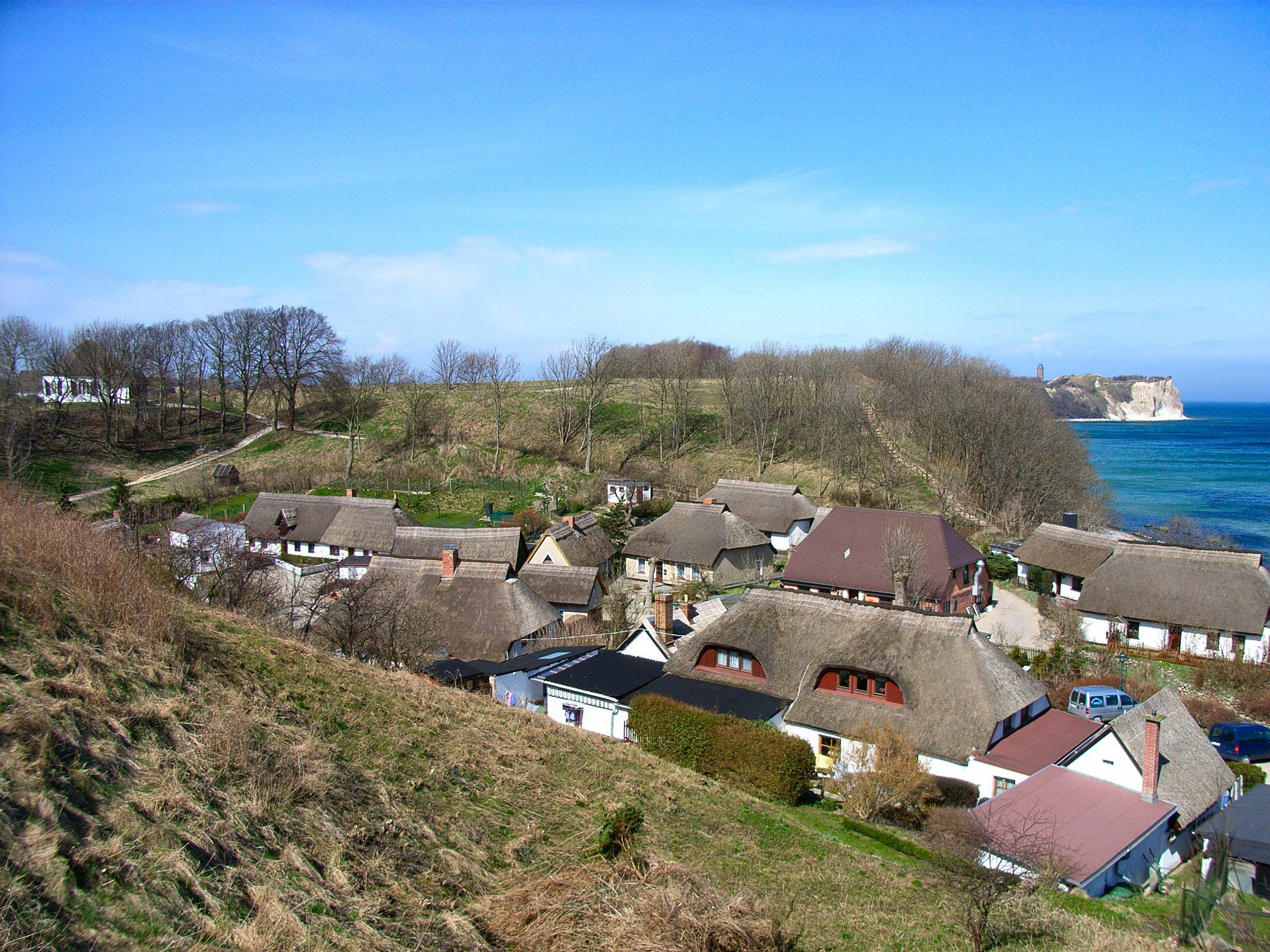 fishing village Vitt on island Rügen in spring